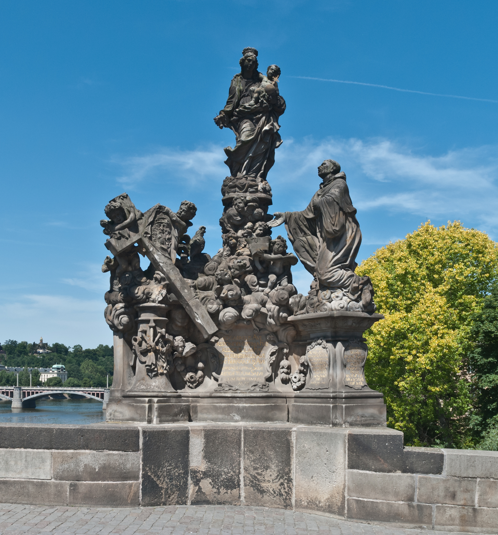 Sculpture of Madonna and Saint Bernard on Charles Bridge in Prague